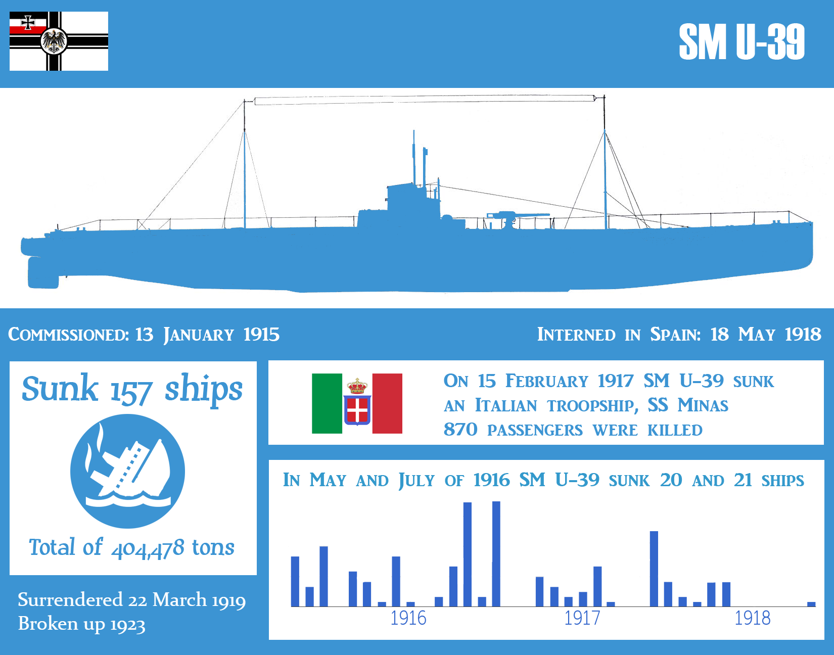 Infographic for Imperial German Navy SM U-39